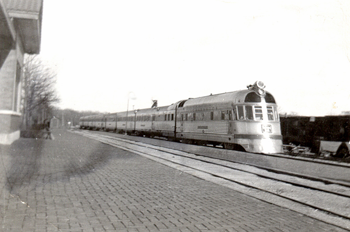 The Burlington Zephyr in the early 1940s. This is the Twin Cities Zephyr, which ran between Chicago and Minneapolis-St. Paul. This was the second route on which the Burlington Route (or CB&Q) used the Zephyr. There were two trains in each direction every day, the Morning Zephyr and the Afternoon Zephyr. The Zephyr was a new concept in passenger trains, with stainless steel cars by Budd Co. and a diesel engine by General Motors. It had a fixed trainset with a set of wheels joining each pair of cars, rather than each car having two sets of wheels. All of this made the train lighter, and potentially gave higher speed. The first Zephyr in 1934 was the Pioneer Zephyr. a three-car trainset. The Twin Cities Zephyr began with a similar trainset in 1935, but this longer set replaced it in 1936. This trainset stayed in service until 1947. At one time, the Twin Cities Zephyr was the fastest train in the world. It traveled 427 miles (687 km) between Chicago and St. Paul in six hours, for an average speed (including stops) of 71 mph (114 kph). The highest speed was on the segment between Prairie du Chien and East Dubuque, Illinois, 84 mph (135 kph). When my family went from Rockford to Prairie du Chien, we went to Oregon by bus, where we caught the Zephyr. Oregon is about 25 miles (40 km) southwest of Rockford. The train trip was about two hours. It appears that my father took this photo at the Oregon station. Light and shadows suggest that this is the Afternoon Zephyr. Zephyr is not a common word. It means a breeze from the west.